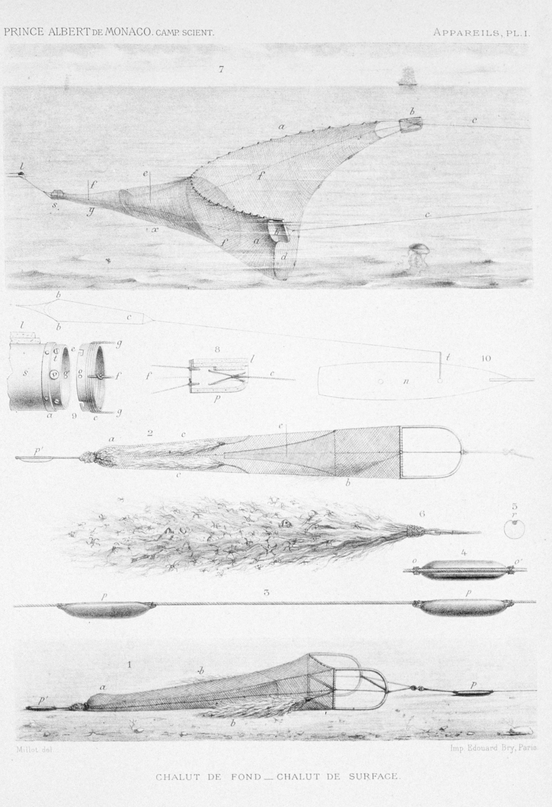 Old drawing of trawling. Nets for trawling in surface waters and for trawling in deep water and over the bottom. Note the "tangles" with all of the marine life caught up in them. Apparatus, Plate I. In: "Results of the Scientific Campaigns of the Prince of Monaco." Vol. 84.